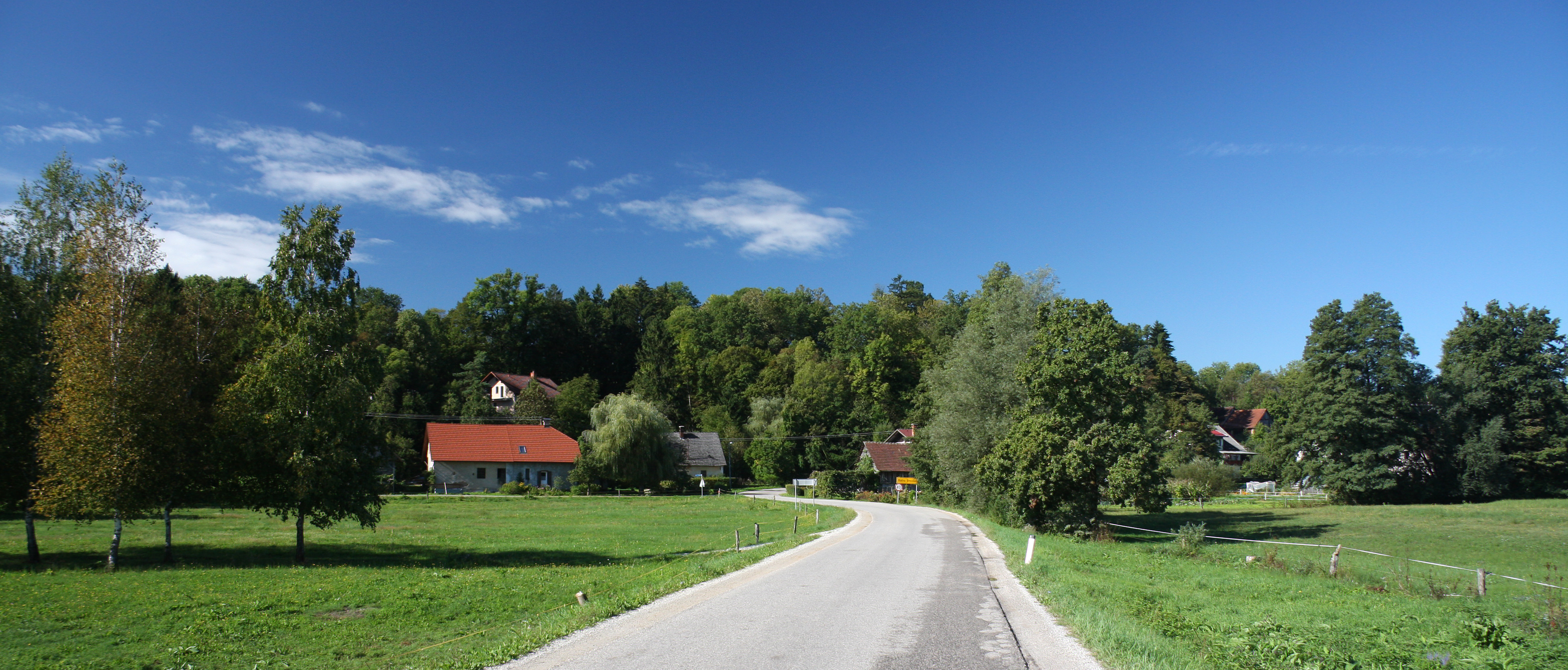 Beginning of the village Blatna Brezovica, Slovenia, as viewed from the direction of Bevke.